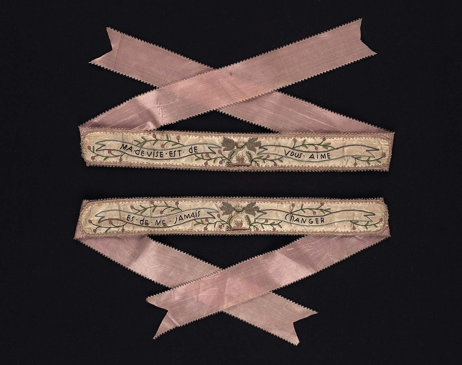 18th century garters